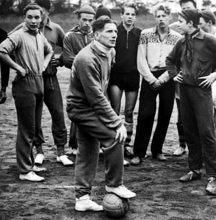 George Raynor, english footballplayer and coach (1907-1985)